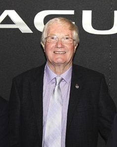 Racing driver Win Percy at a Jaguar Cars promotional event in 2012.